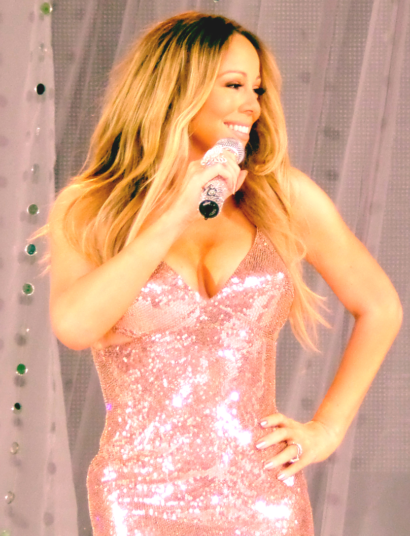 Mariah Carey performing on Good Morning America